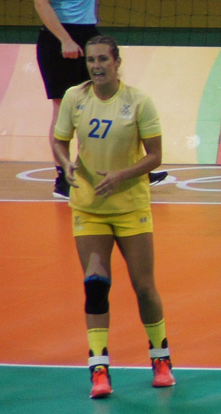 Swedish handball player Sabina Jacobsen, during the Olympic Games, Rio 2016.